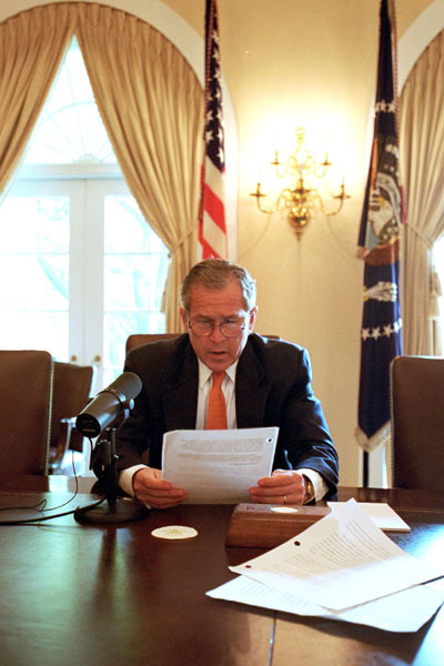 An image of George W. Bush giving his weekly radio address on Cinco de Mayo 2001. This was the first radio address that any President broadcast in both English and Spanish.